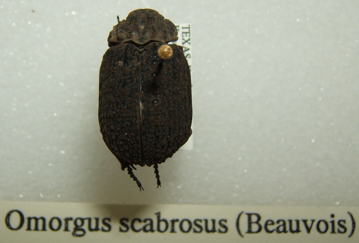 Omorgus scabrosus adult taken by Shawn Hanrahan at the Texas A&M University Insect Collection in College Station, Texas.